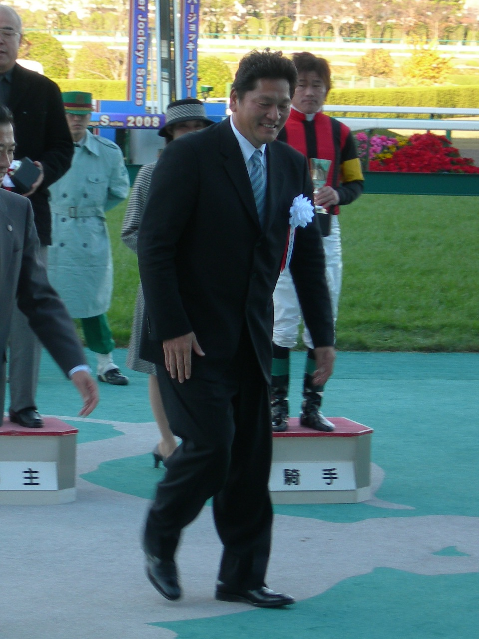 Kazuhiro Sasaki in Hanshin Racecourse. taken in 2008.